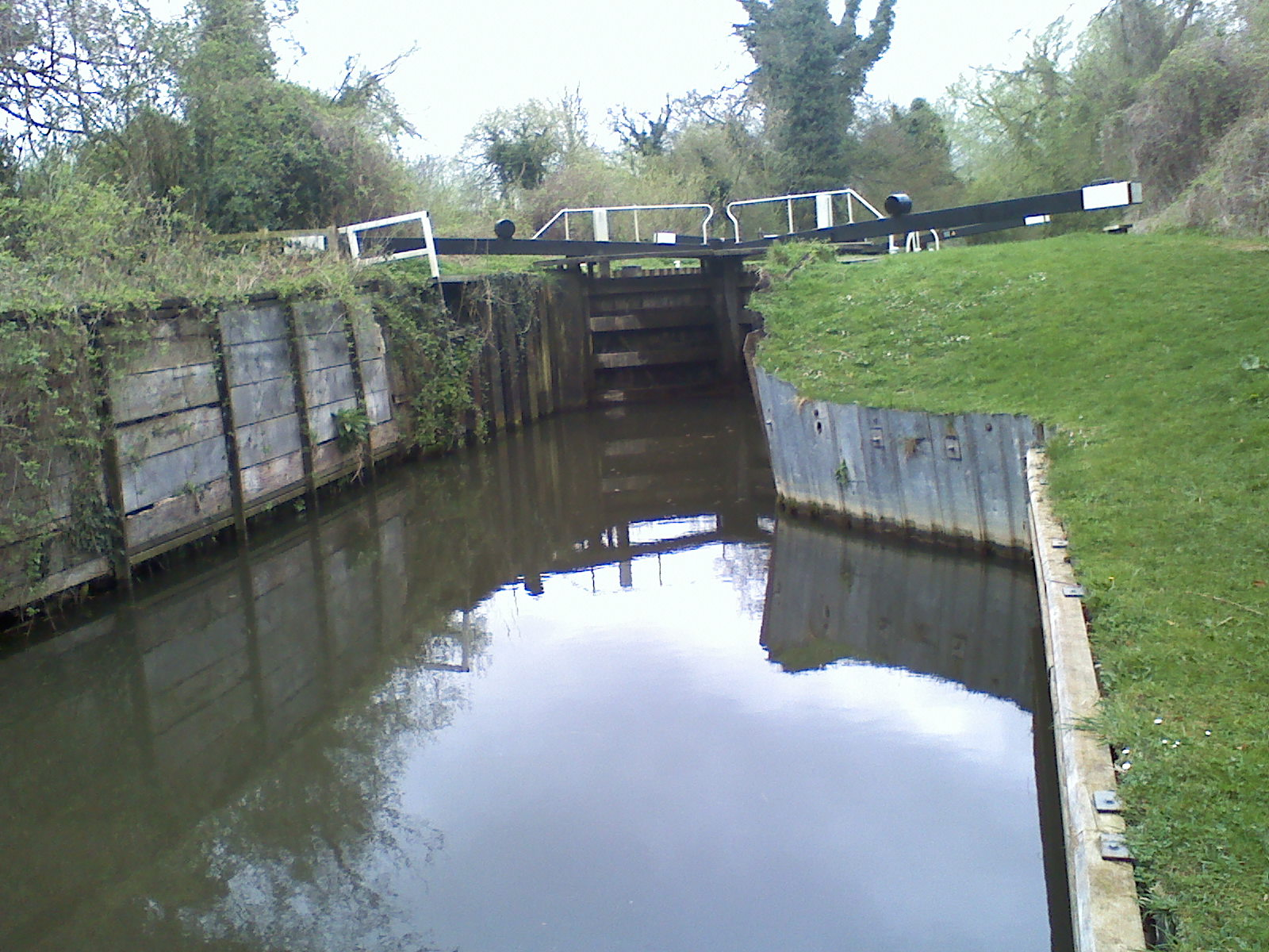 Burghfield Lock with the bottom gate in the foreground.